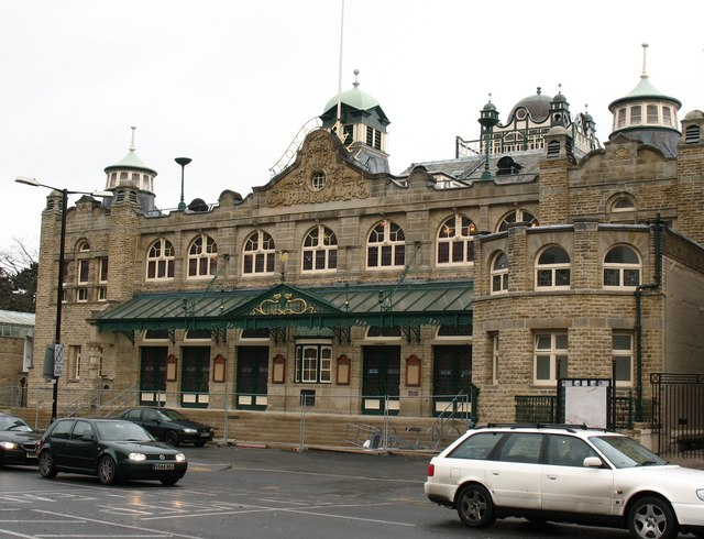 The Royal Hall The Royal Hall opened as The Kursaal on 28th May 1903, and in its early years some of the world's great artistic talents appeared on the stage here, including Edward Elgar, Fritz Kreisler and Dame Nelly Melba. Some 60 years later a little known beat combo known as The Beatles also appeared on stage. [whatever happened to them?] The name was changed to Royal Hall after the outbreak of WW1 as no German name could be allowed [although it is still carved in stone above the entrance]. In the 1990's the concert hall was closed due to structural problems which would have been expensive to rectify, but thankfully, due to the efforts of local fund raisers, grants etc, the hall has been repaired and redecorated and is nearly ready for its grand reopening.